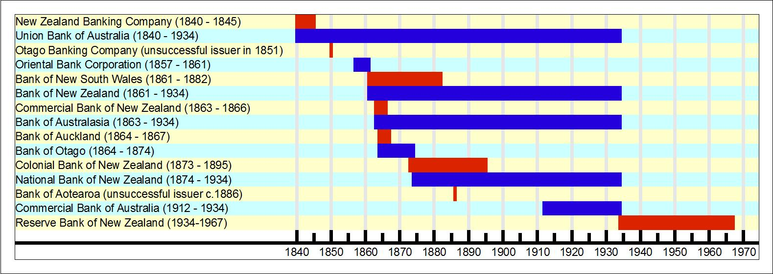 This is a graphic illustrating who issued banknotes in New Zealand in any given year between 1840 and 1970 based upon the information given in the article about the NZ Pound